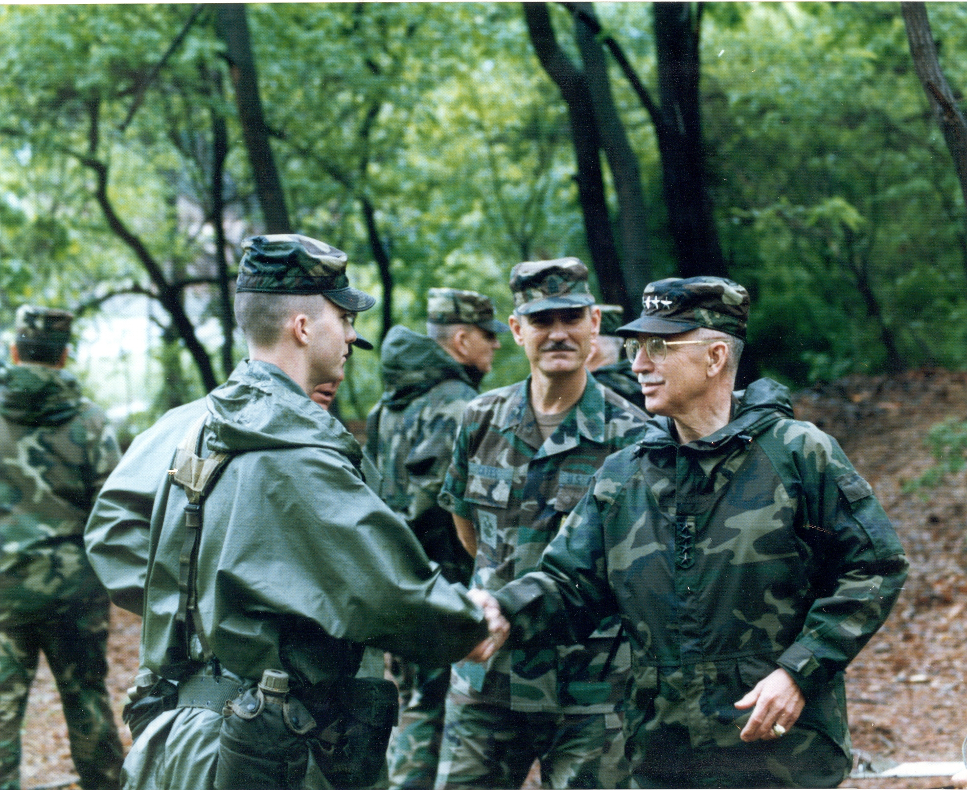 Corporal Daniel L. Dow, pictured late May 1993 shaking hands with General Frederick M. Franks, Jr. at Cp Jackson, South Korea where the 2nd Infantry Division's Non-Commissioned Officer Academy was located. Also pictured is Command Sergeant Major Cates who was the Commandant of the NCO Academy. Corporal Dow was attending the Primary Leadership Development Course and had just completed the land navigation course moments prior to this photo being snapped.